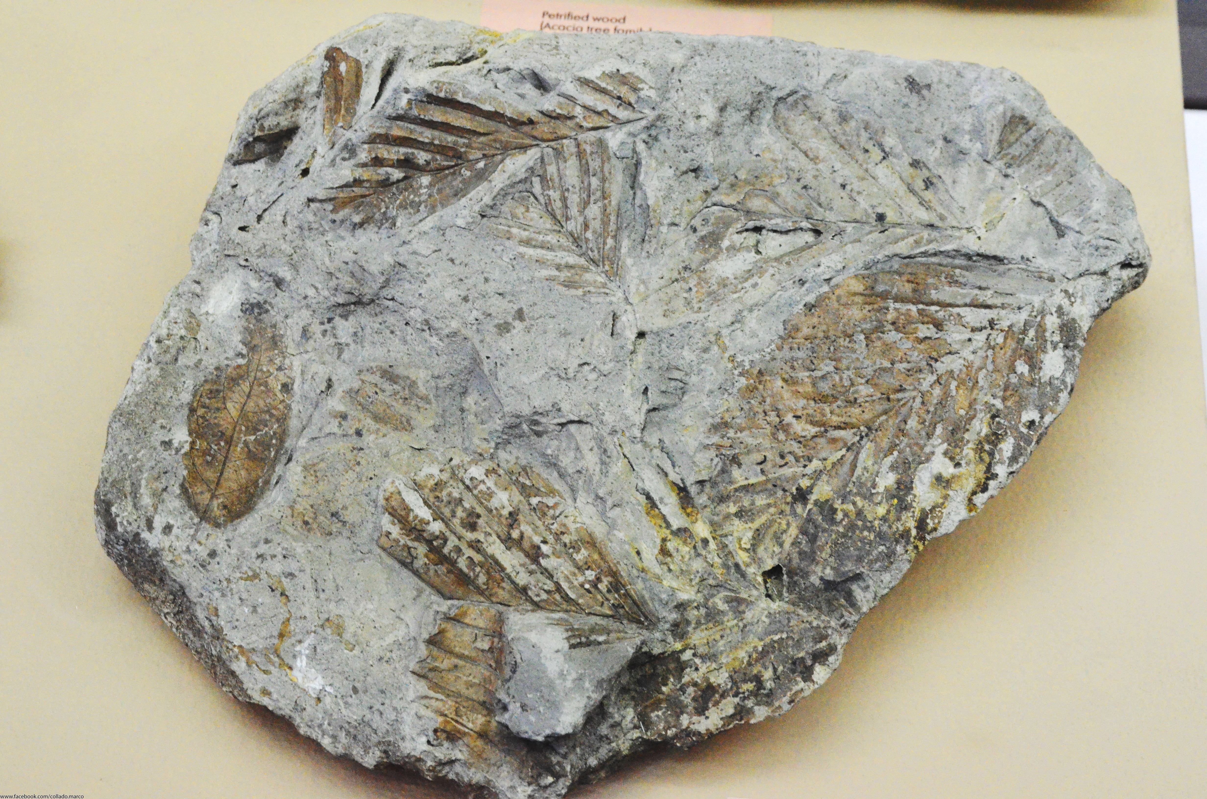 Petrified Acacia wood specimen as exhibited in the National Museum of the Philippines